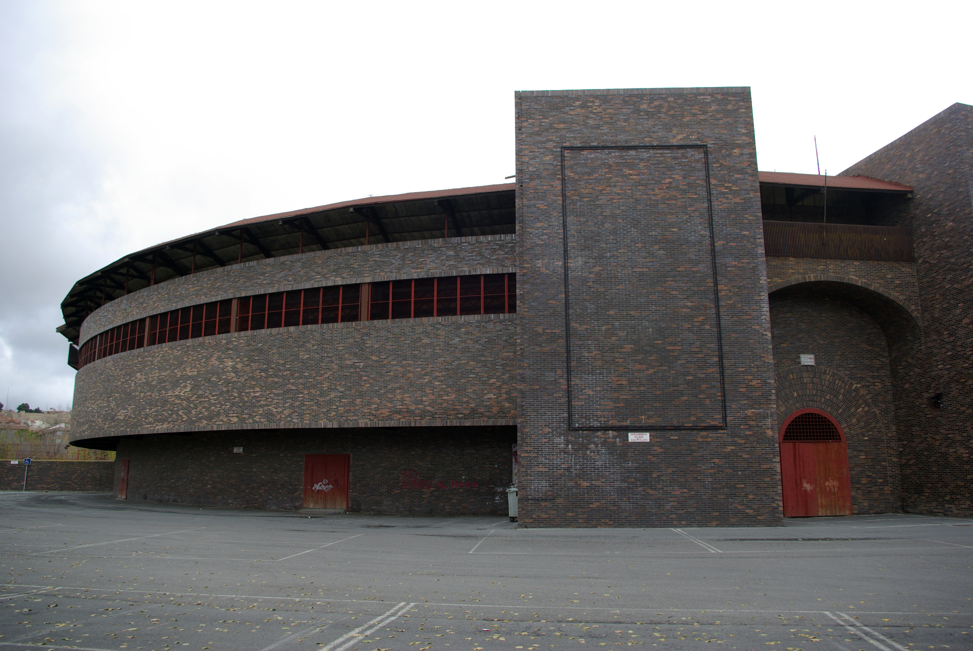 Bullring in Ávila (Ávila, Spain).